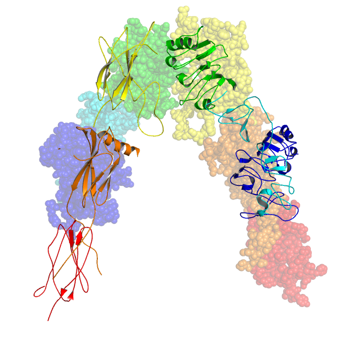 The dimeric Insulin Receptor ectodomain colourised to demonstrate L1 (blue), CR (cyan), L2 (green), FnIII-1 (yellow), FnIII-2 (orange), FnIII-3 (red) domains with foreground and background monomers represented as cartoon and sphere projections respectively. Image generated by Pymol, derived from structure PDB:3LOH.